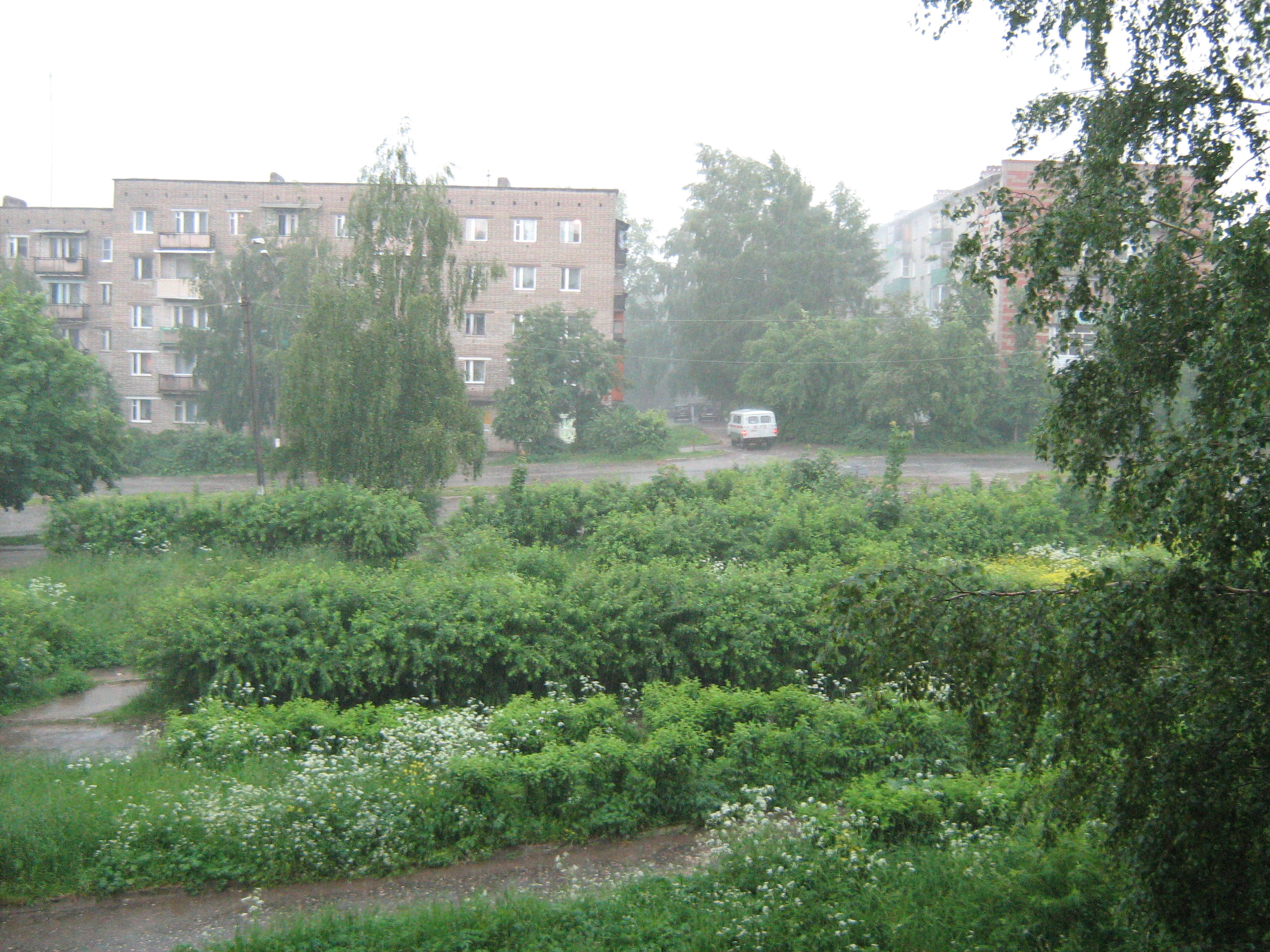 Kochugino rain